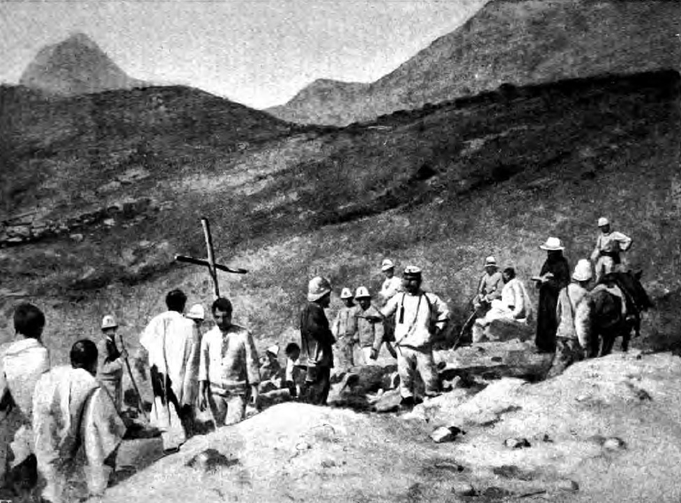 Tomb of general Dabormida at Ado Scium Cohena, after the battle of Adwa